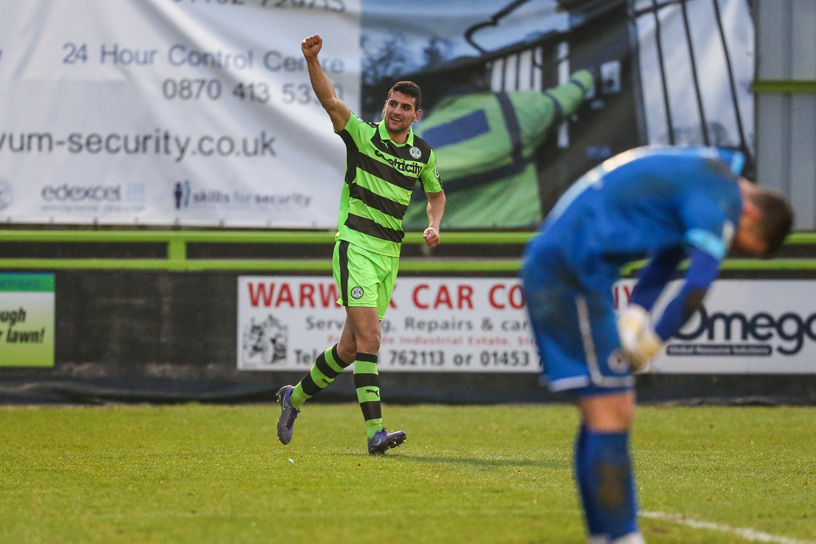 Forest Green Rovers Omar Bugiel (11) and celebrates his goal, 2-0 during the Vanarama National League match between Forest Green Rovers and Boreham Wood at the New Lawn, Forest Green, United Kingdom on 11 February 2017.